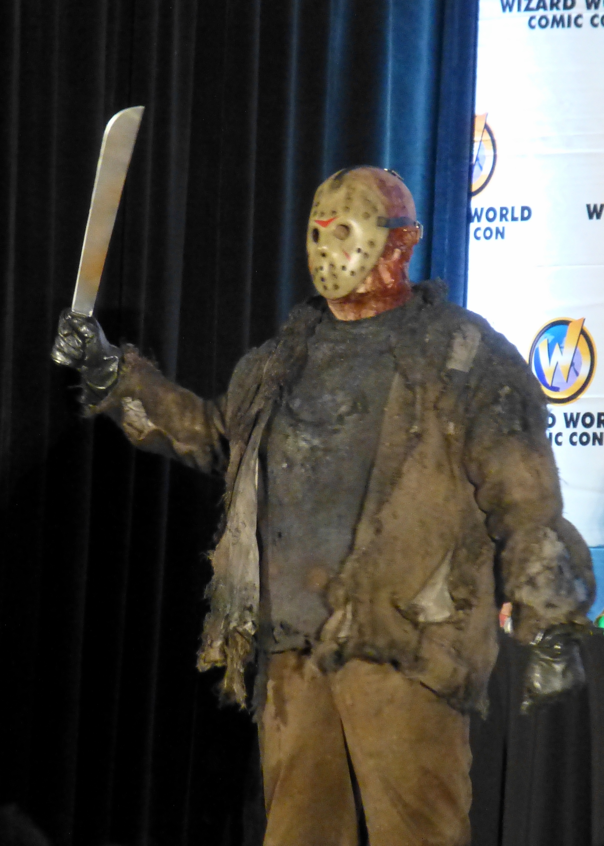 Cosplay of Jason Voorhees (from the Friday the 13th film franchise) in the costume contest at the 2014 Wizard World Chicago in which he won Best Male Villain.